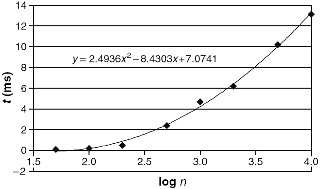 Graph of empirical complexity of knapsack algorithm; demonstrates sub-linear growth